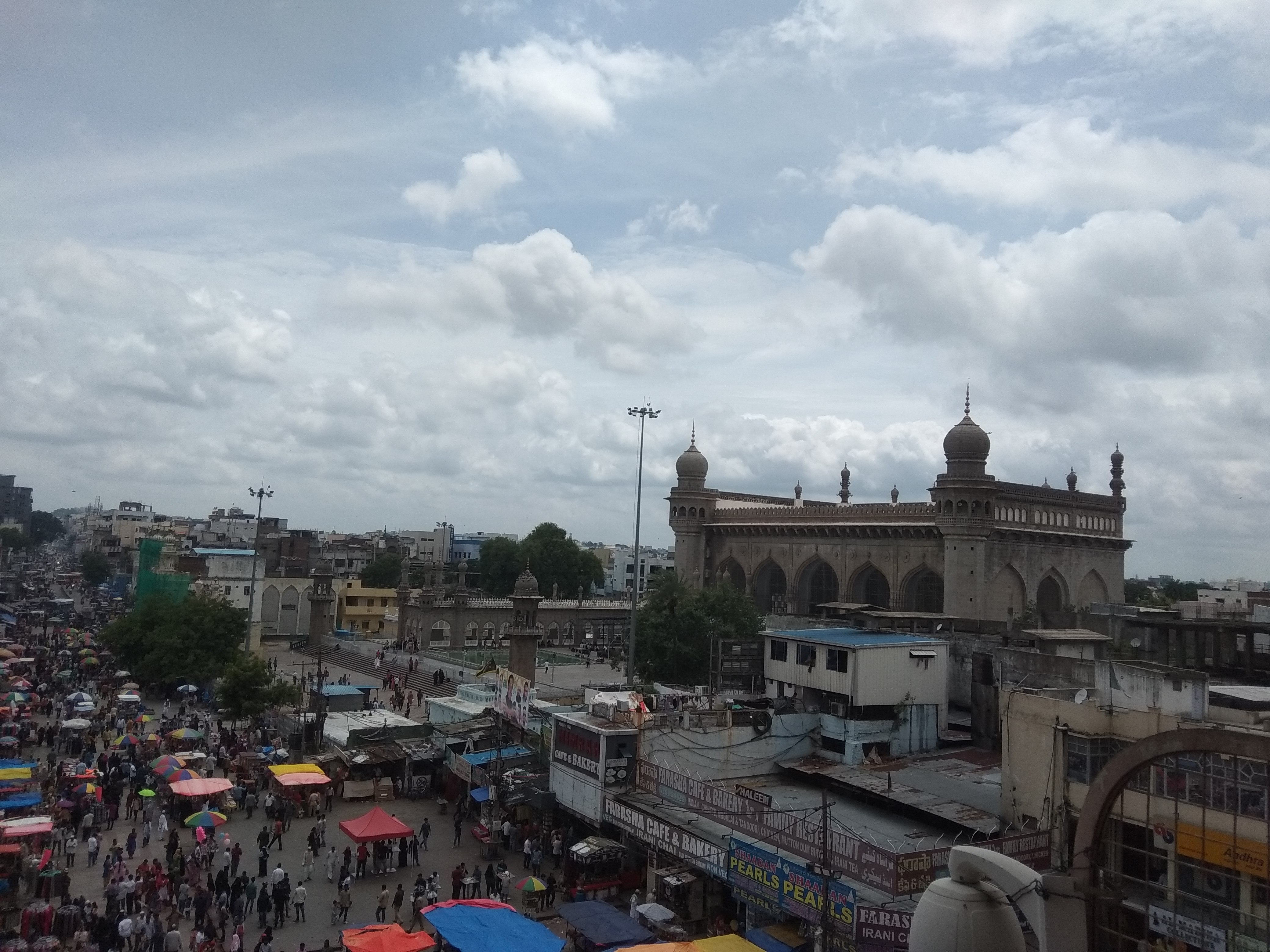 Meccamasjidcharminar